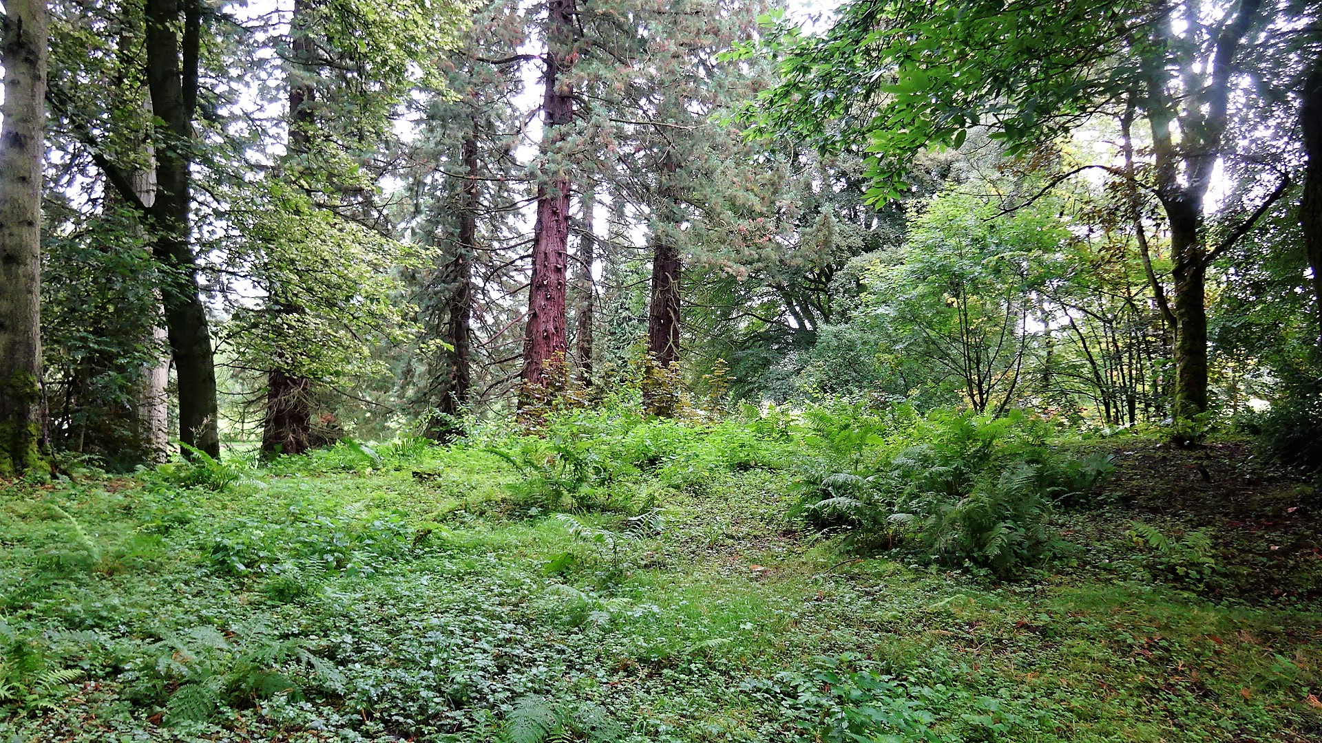 Leifnorris Castle site, Dumfries House, Ayrshire, Scotland. Built by the Crawfurds.